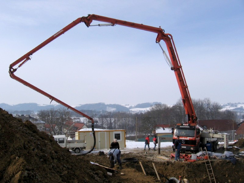 Mobile concrete pump